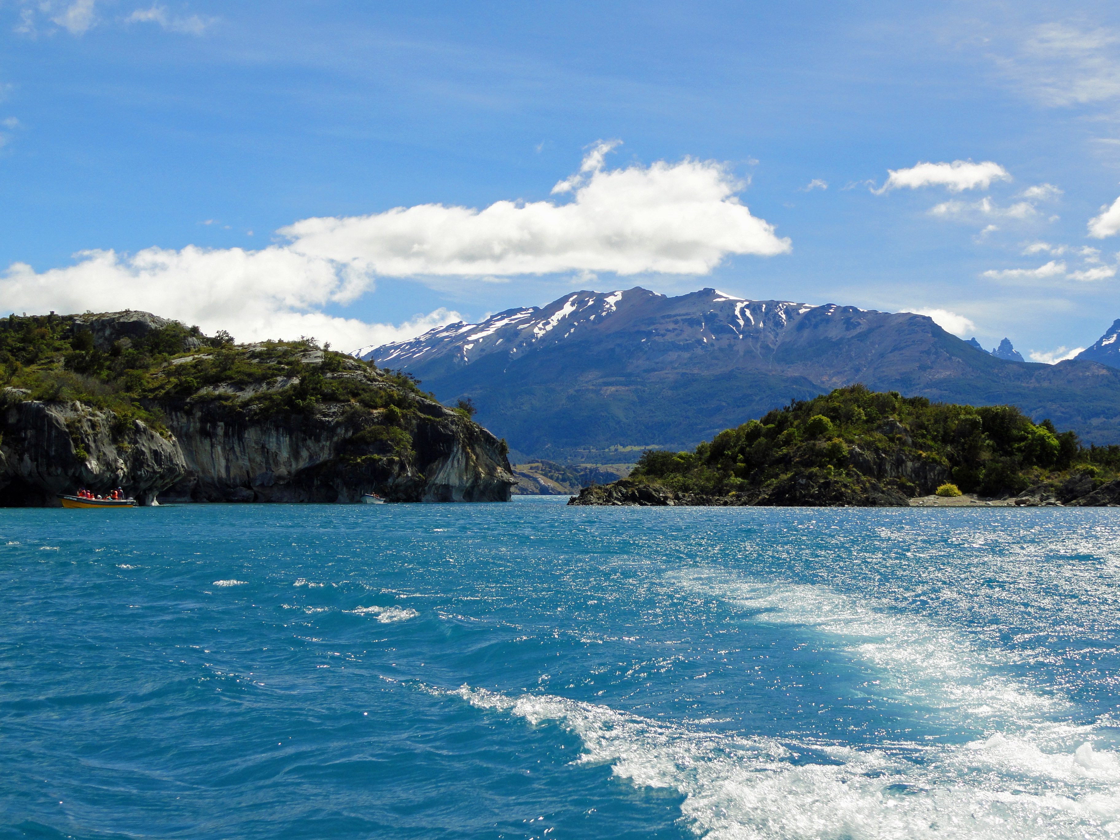 General Carrera Lake from the boat that takes you to the "Capillas de Mármol".